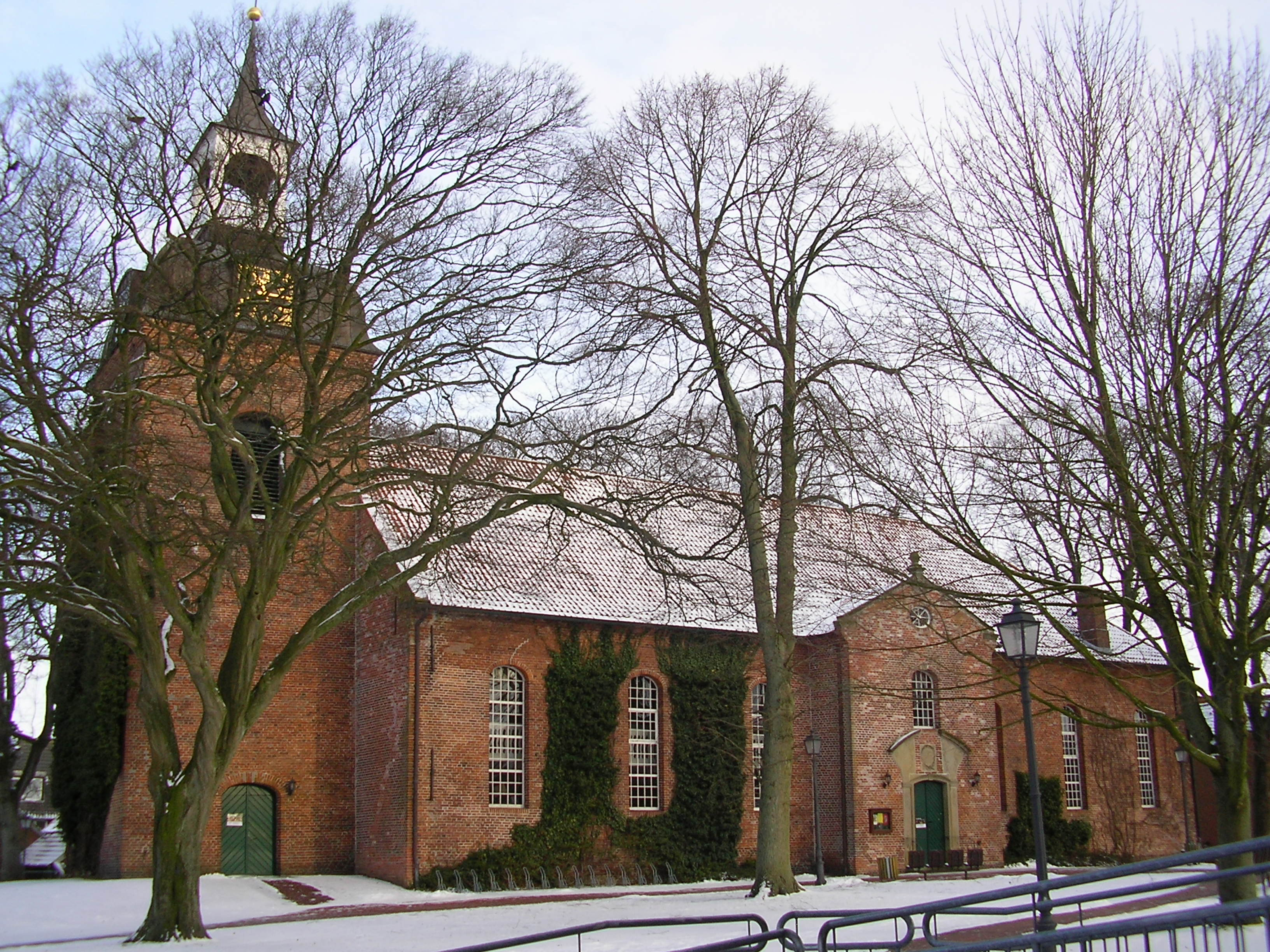 Wittmund, Church St. Nicolai